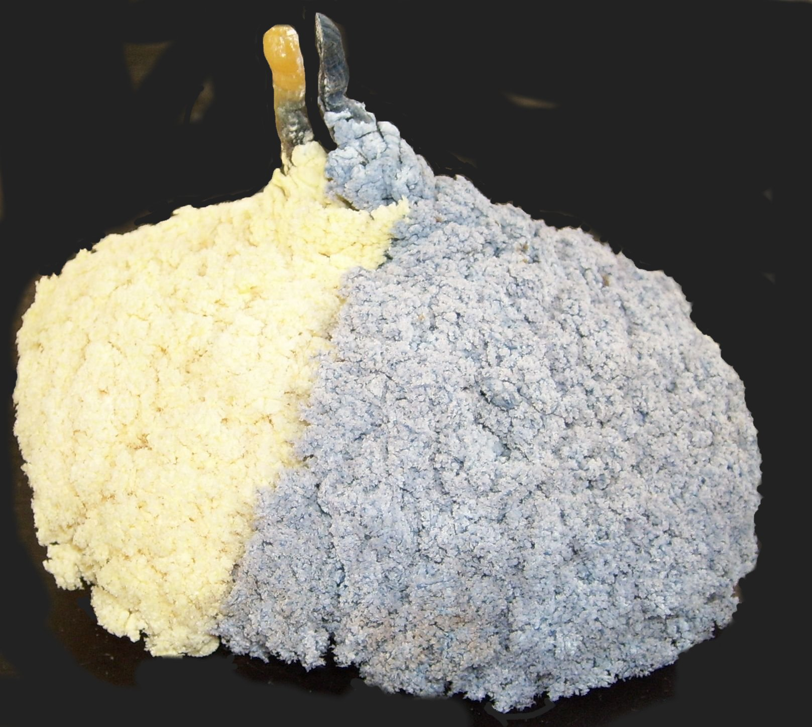 corrosion cast of a sheep udder